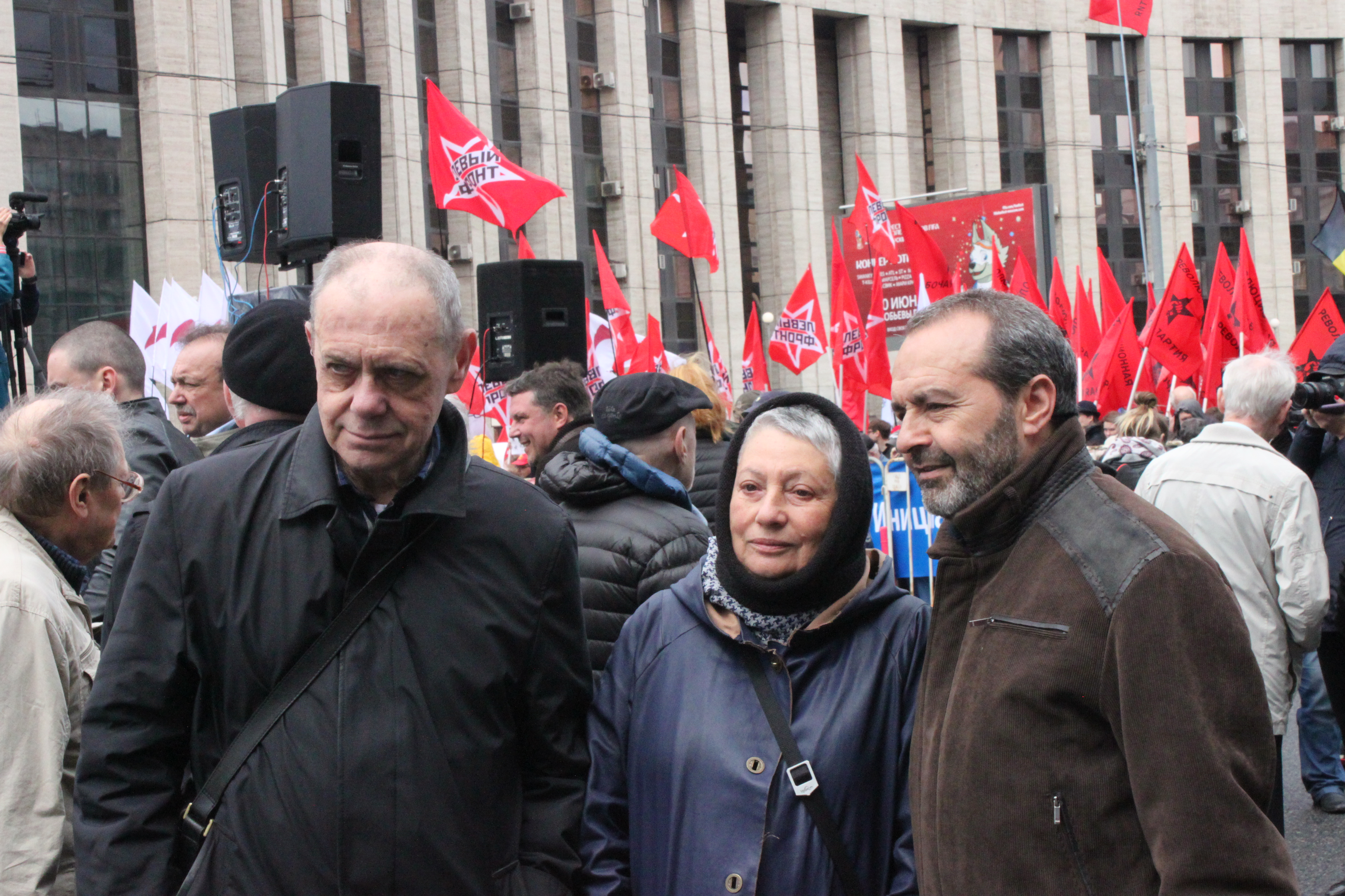 In Moscow on June 10 a rally "For a free Russia without repression and despotism" was held.